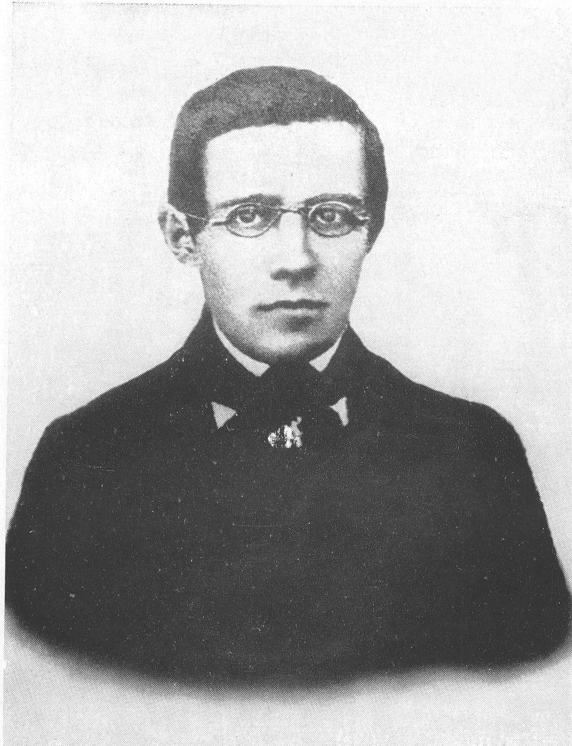 Daguerrotype of Bedřich Smetana as a student, ca 1840